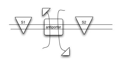 Cell biology: Antiporter.